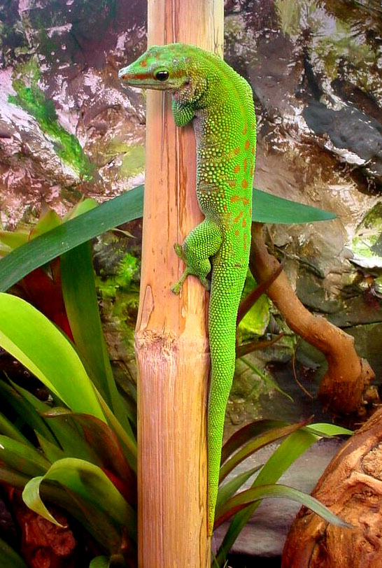 Phelsuma madagascariensis madagascariensis, male, in Terrarium